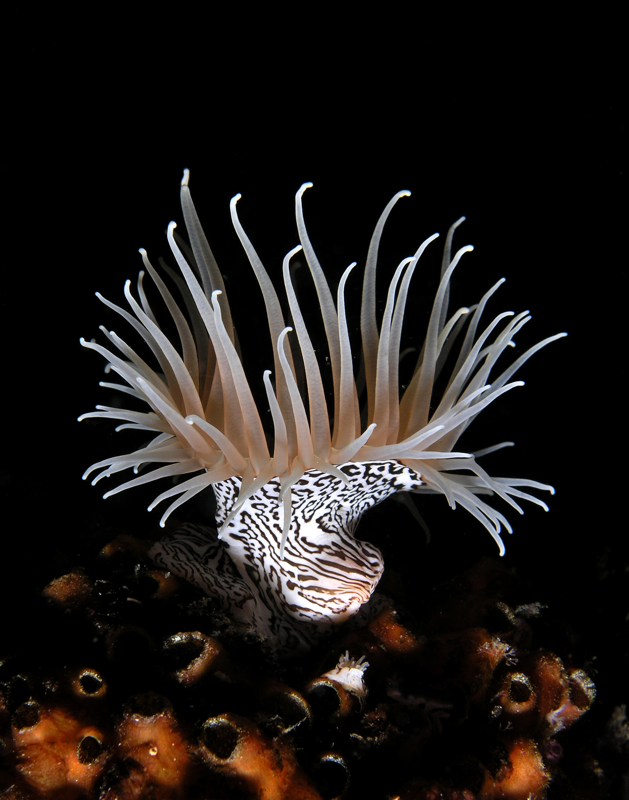 A Zebra striped Gorgonian Wrapper (Nemanthus annamensis), a type of colonial anemone.